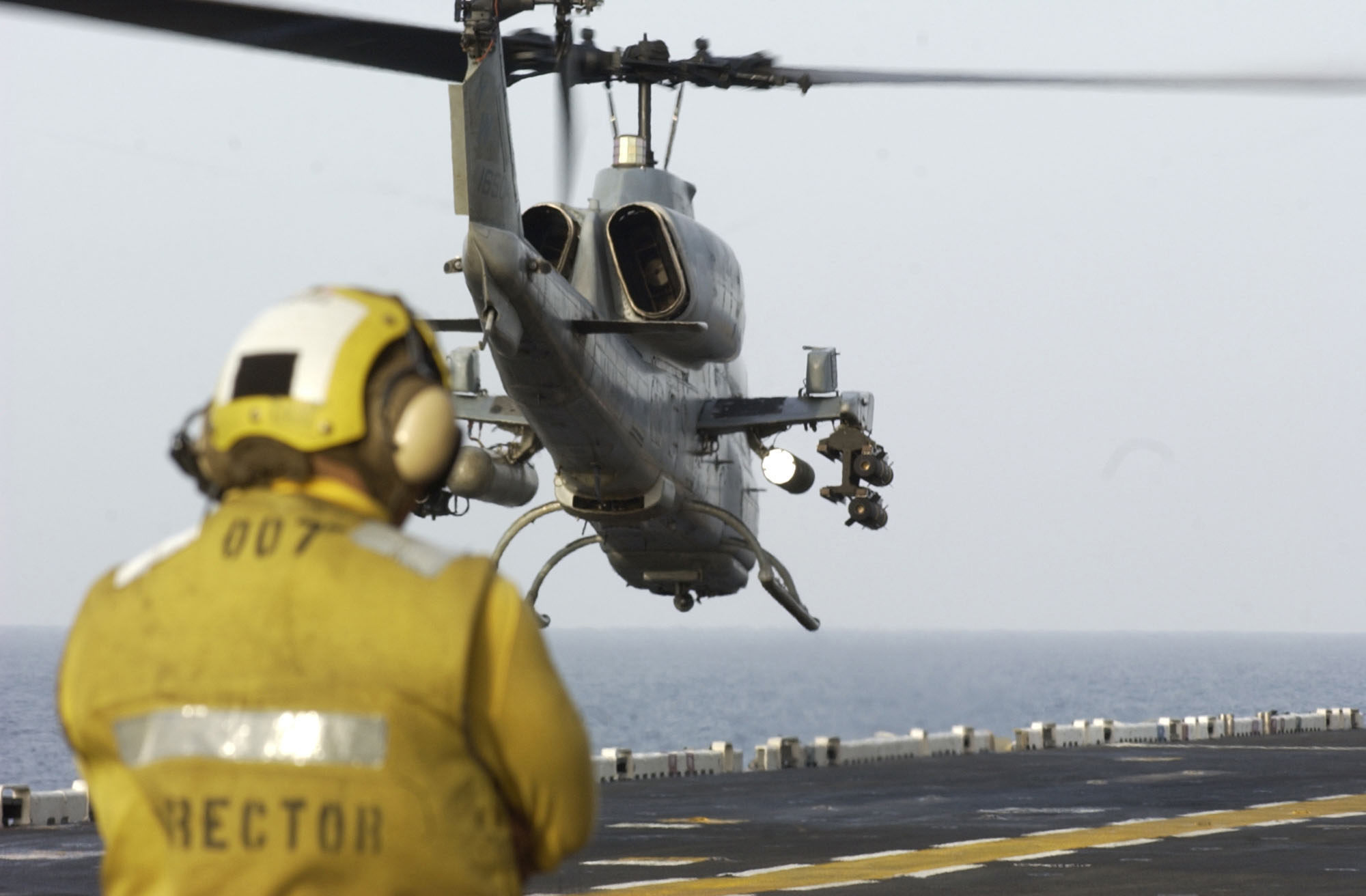 020304-N-8977L-002 At sea aboard USS Bonhomme Richard (LHD 6) Mar. 4, 2002 -- Flight deck director, Aviation Boatswains Mate 3rd Class Thomas Sanchez from Fontana, CA, watches an AH-1W “Super Cobra” helicopter from the "Scarfaces" of Helicopter Attack Light Squadron One Six Nine (HMLA-169) depart the flight deck as it sets out to support U.S. Army troops in Afghanistan. Bonhomme Richard is forward deployed conducting missions in support of Operation Enduring Freedom and Operation Anaconda. U.S. Navy photo by Photographer’s Mate 3rd Class Johansen E. Laurel. (RELEASED)